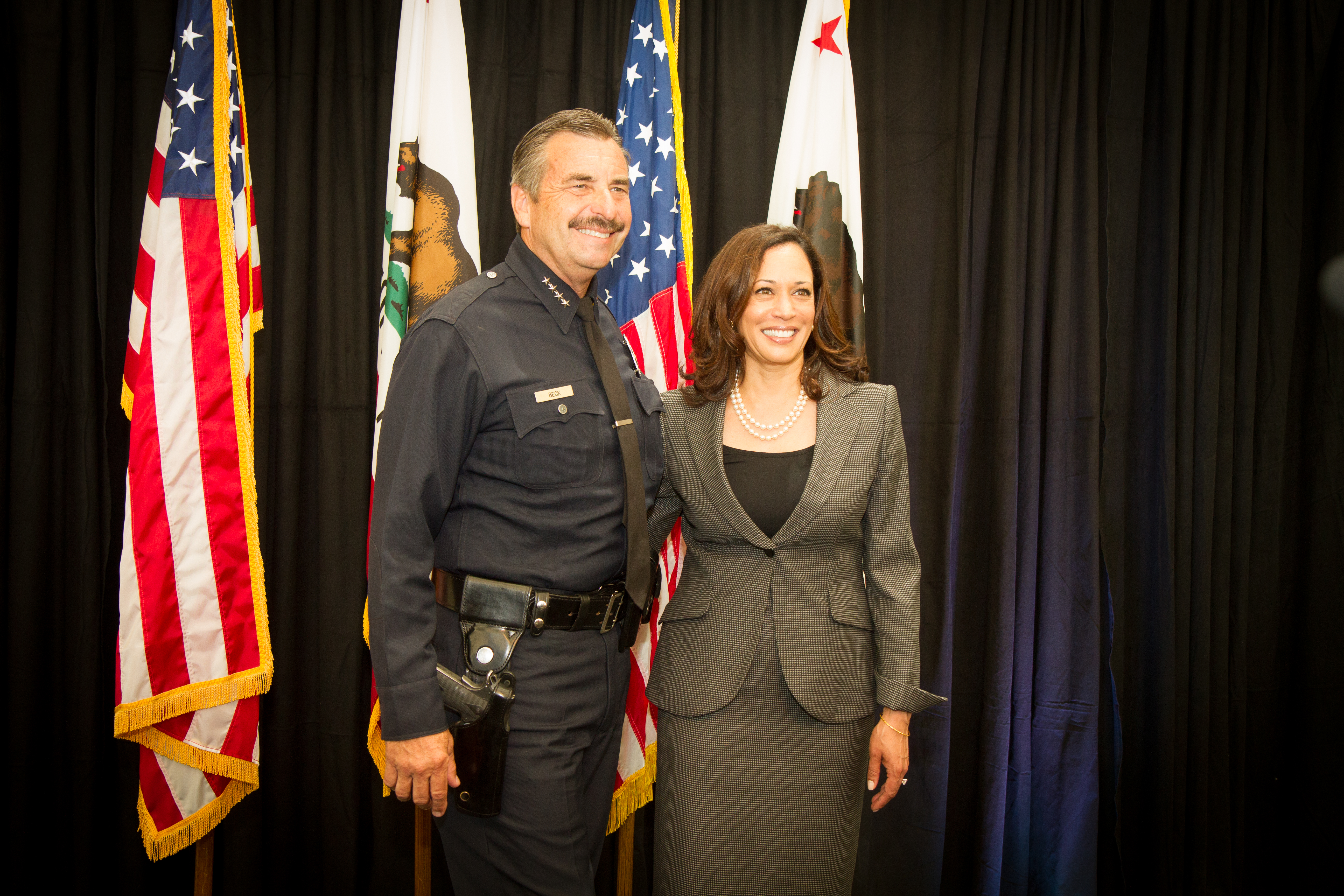 Attorney General Kamala D. Harris Delivers Remarks on 50th Anniversary of the Signing of the Civil Rights Act in Los Angeles on June 30, 2014.